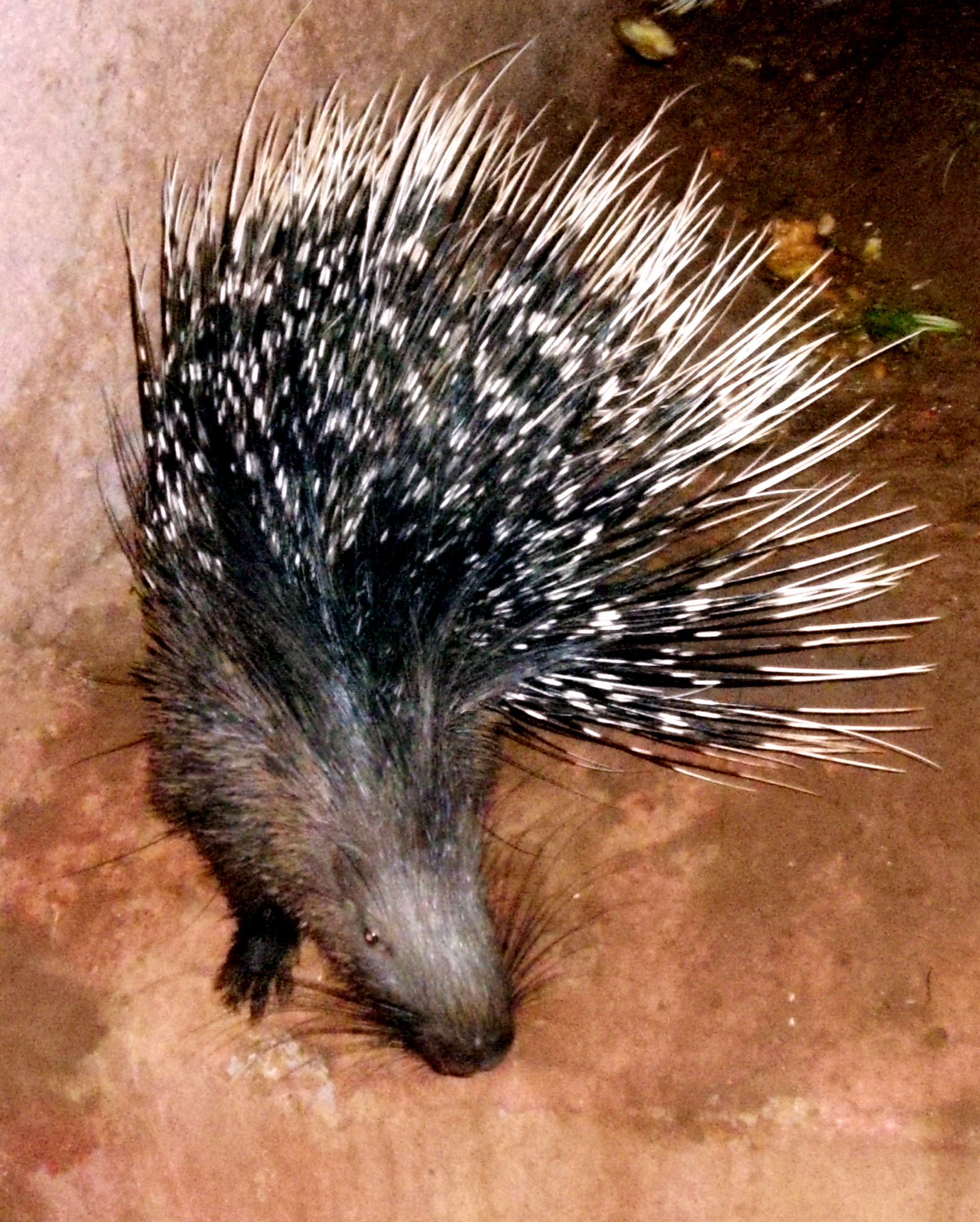 Hystrix indica (Indian Crested Porcupine) at Indira Gandhi Zoological park, Visakhapatnam